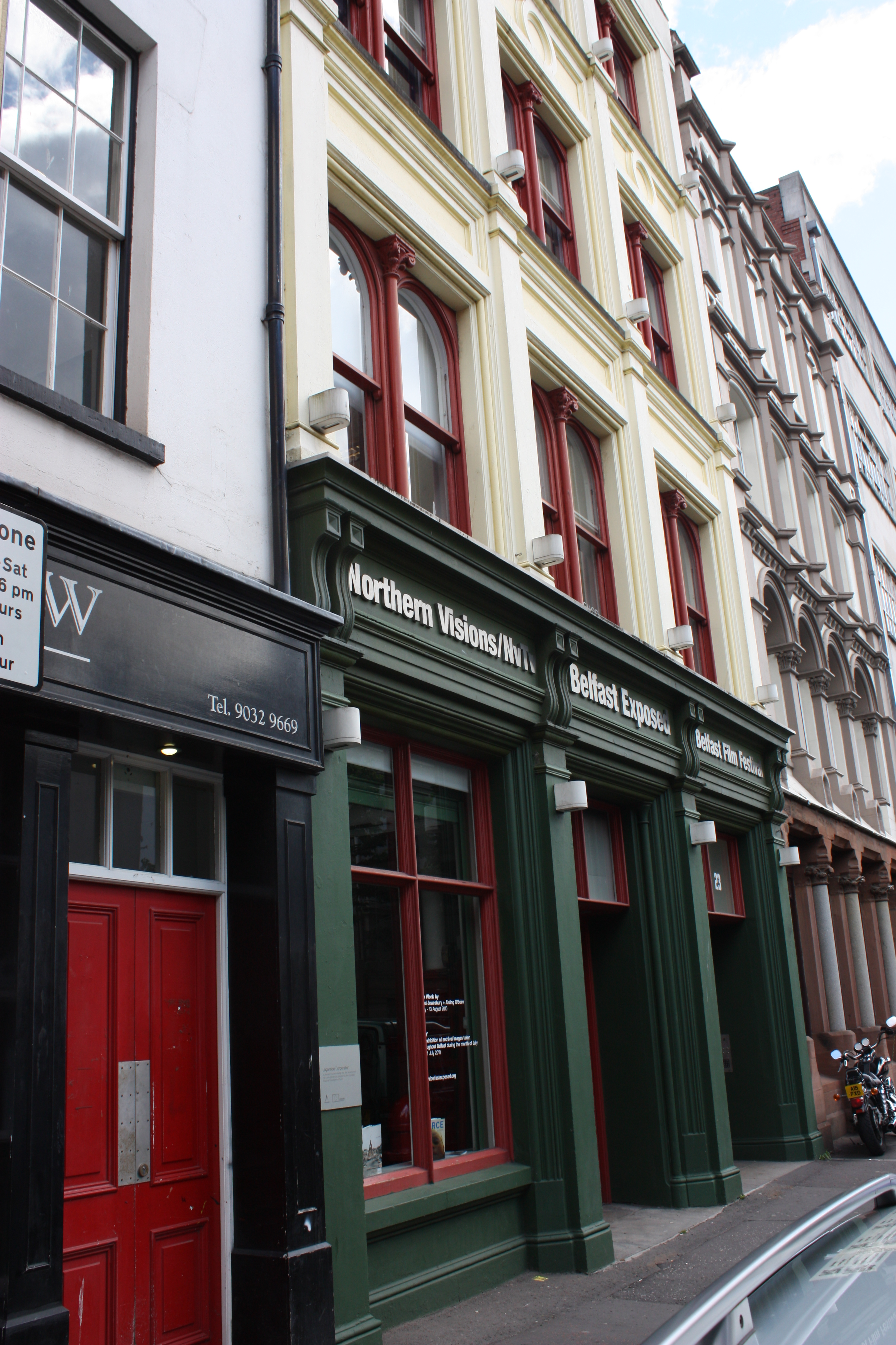 Belfast Exposed, Donegall Street, Belfast, Northern Ireland, July 2010